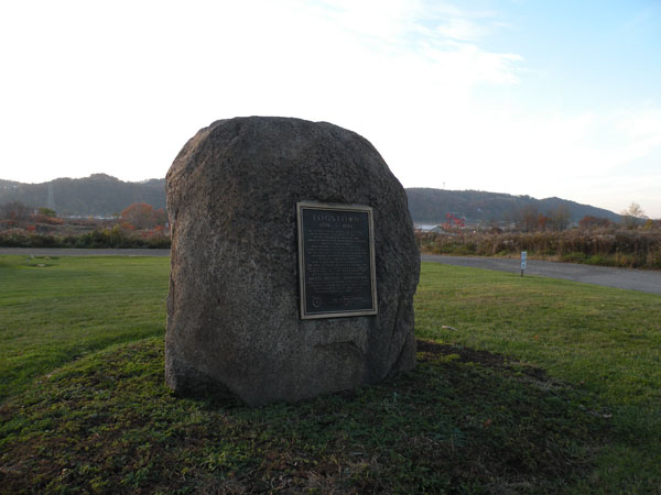 Picture of the stone marker at or near the former site of Logstown (1725-1758), located near present-day Ambridge in Beaver County, Pennsylvania, USA, on October 30, 2009. The plaque on the stone says the following: "LOGSTOWN. 1725 - 1758. An historic Indian village was located a short distance northwest of this spot. It was founded by Shawnee and later occupied also by Delawares, Senecas, Mohawks, and Wyandots. Here in 1748 Conrad Weiser, agent of Pennsylvania, negotiated a treaty with the Indians, that opened the region west of the Allegheny Mountains to Anglo-Saxon influence and development. June 11, 1752, the Treaty of Logstown was made between the Iroquois Indians and the Virginians, giving the latter the right to build a fort and establish a trading post at the forks of the Ohio (Pittsburgh). MAJOR GEORGE WASHINGTON held councils at Logstown with Tanacharison, Scarouady, Shingas and other Indian chiefs, November 24 to 30, 1753 while on his important mission to Fort LeBoeuf. Erected by Fort McIntosh Chapter. Daughters of the American Revolution. 1932."